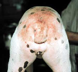 Bull Terrier Ingles with flea allergy dermatitis; secondary folliculitis